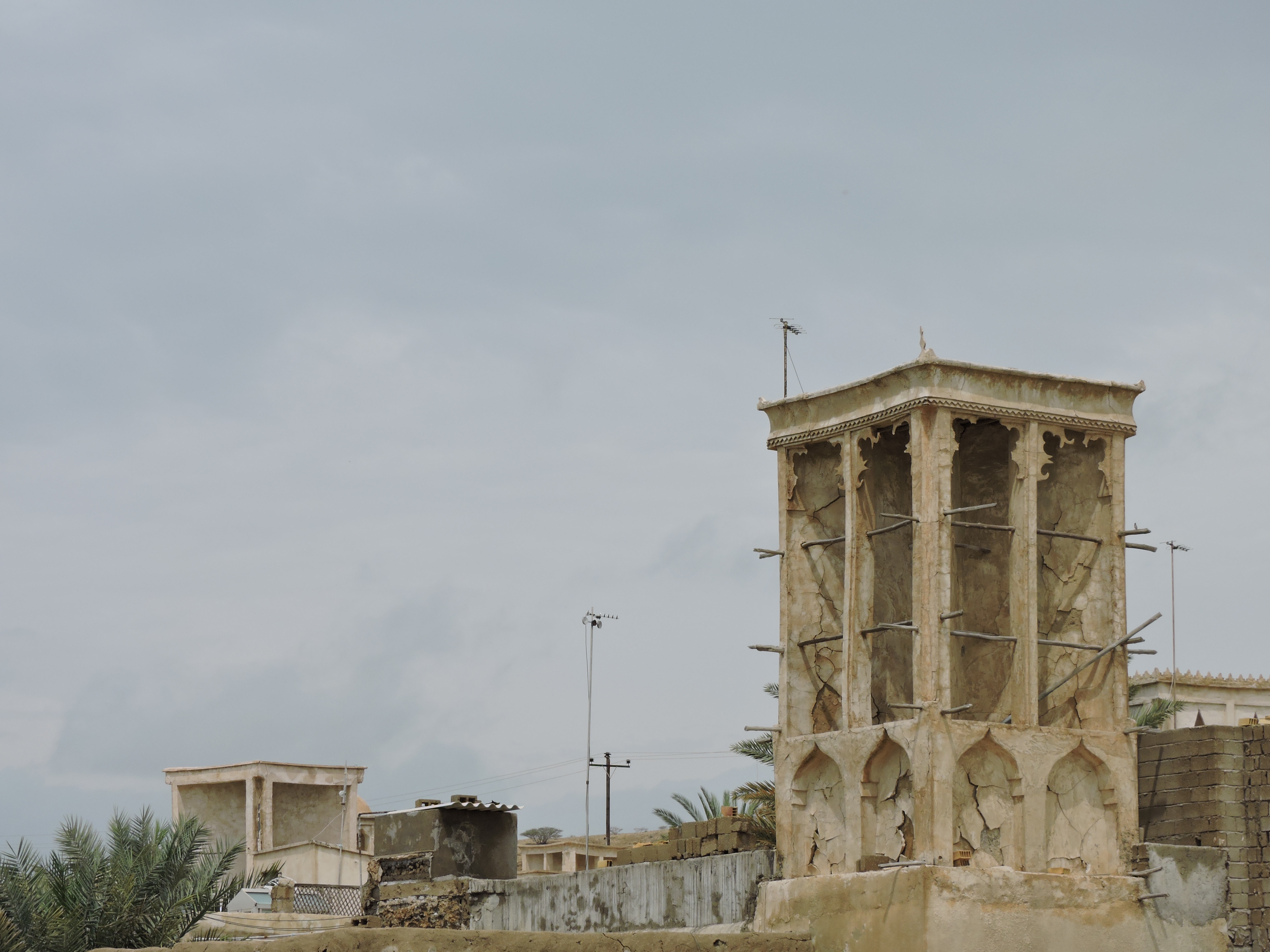 A windcatcher in Qeshm